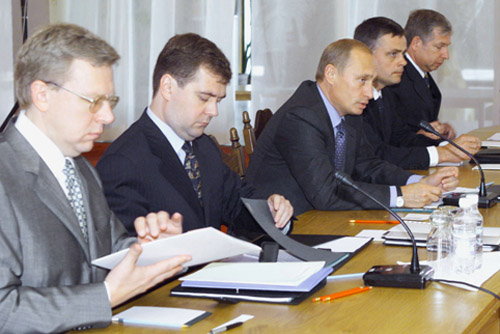 SMOLNY INSTITUTE, ST PETERSBURG. Vladimir Putin at a conference on the social and economic development of the Northwestern Federal District.